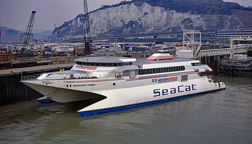 HSC HoverSpeed France at Dover in 1992. Information about the vessel may be found at IMO 8900012.A ship can change name and flag state through time, but the IMO number remains the same through the hull's entire lifetime. As a result, it can be useful to identify a ship by using the IMO number. Scanned from a Fujichrome 35mm slide.